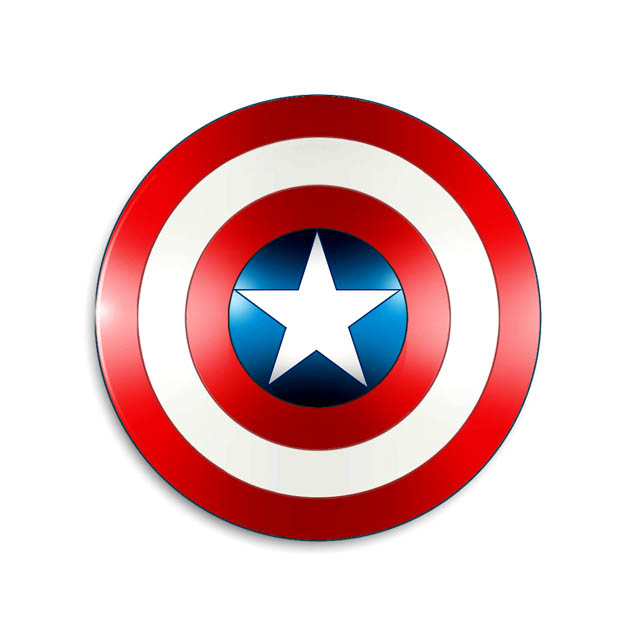 Photoshop illustration representing Captain America's shield, as depicted in most silver age appearances.